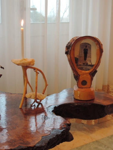 ma com foto